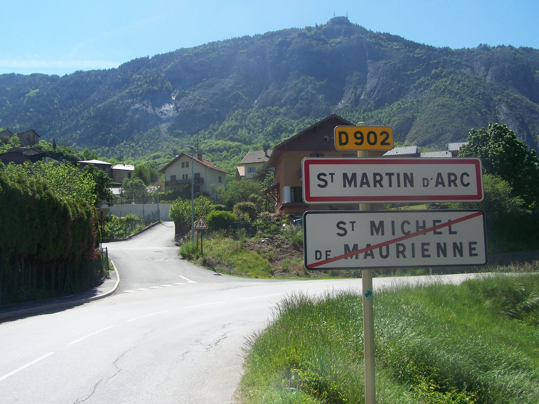 Sign welcoming visitors to the village of St-Martin d'Arc in the French Savoyan Alpes.